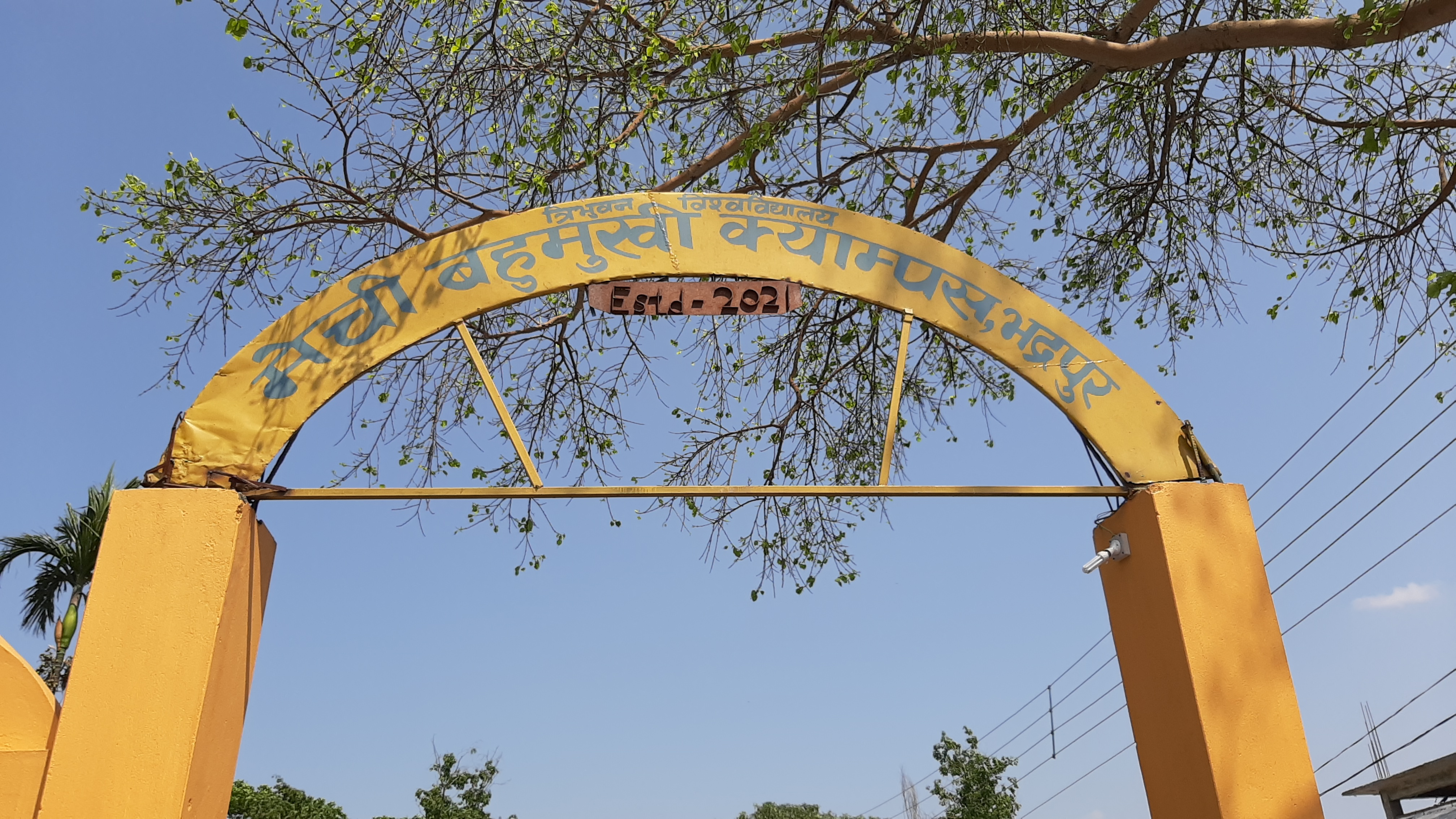 Mechi Multiple Campus